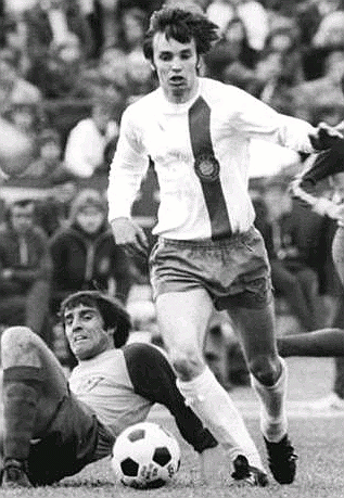 Title: FDGB-Pokal, Finale, 1.FC Lok Leipzig - FC Vorwärts Frankfurt/Oder 3:0 Factual corrections and alternative descriptions are encouraged separately from the original description. Additionally errors can be reported at this page to inform the Bundesarchiv. Original historic description: Roland Hammer (rechts) 1976